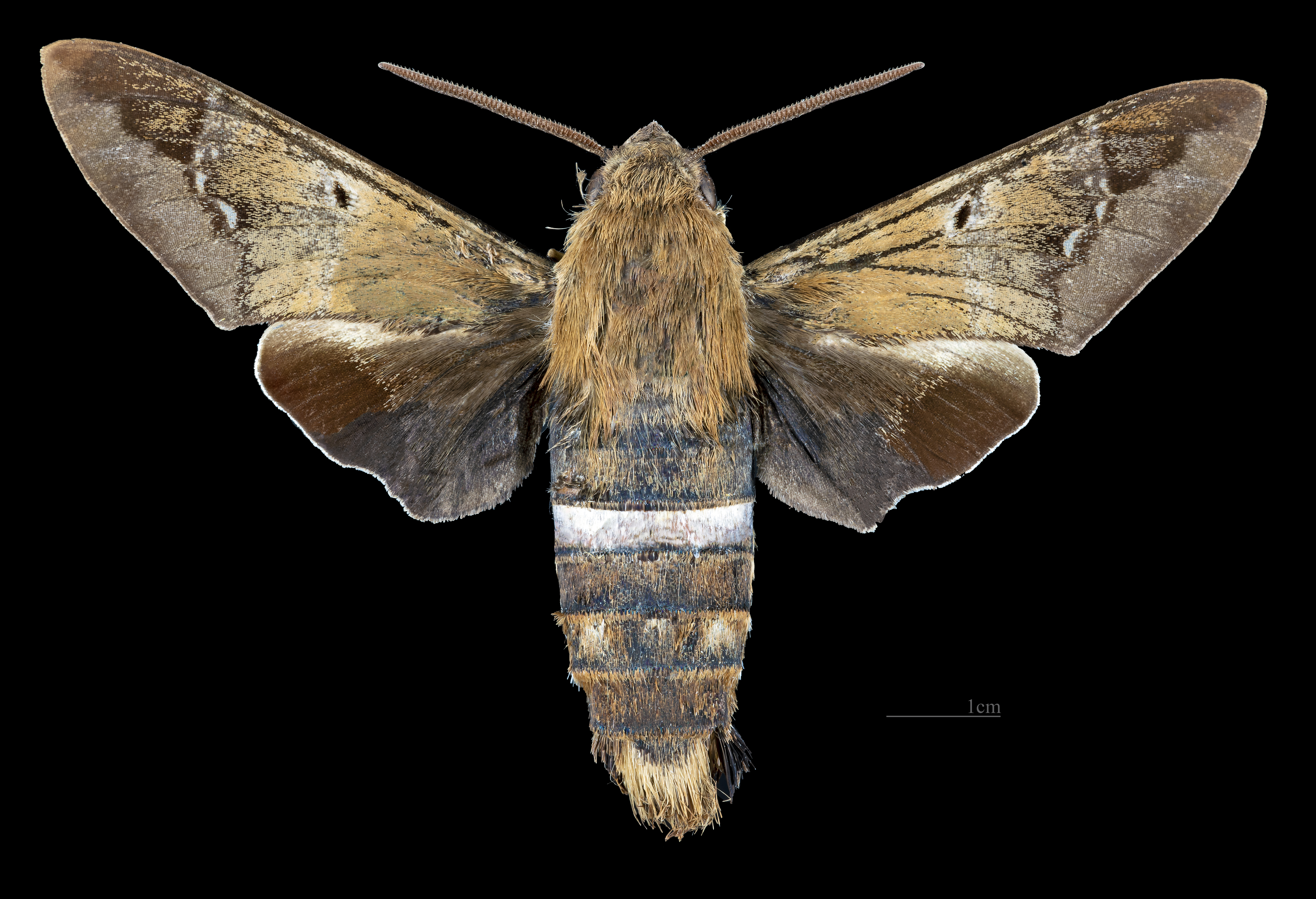 Aellopos tantalus -Dorsal side Collection of the Mathematician Laurent Schwartz